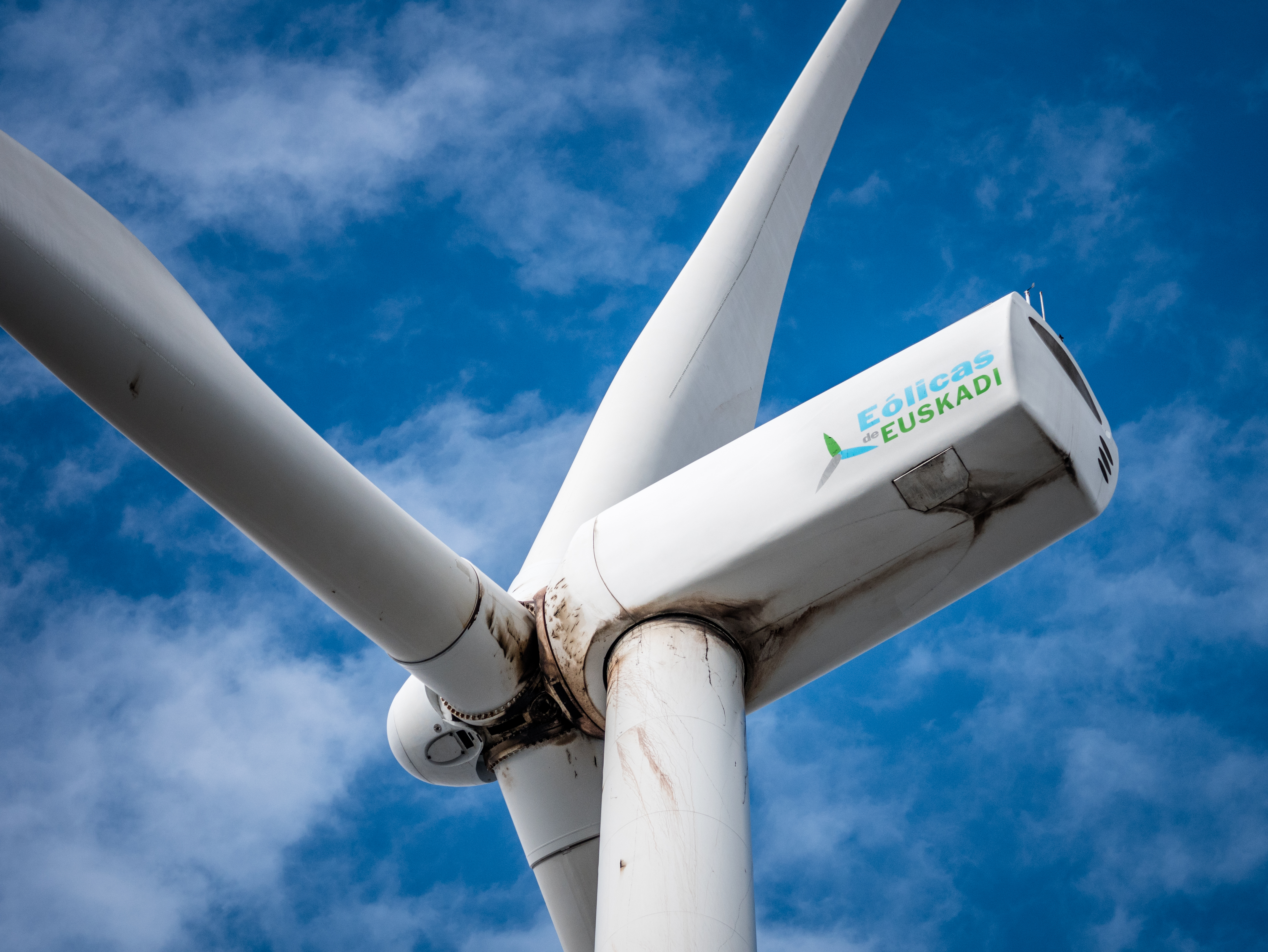 Detail of a wind turbine Alstom-Ecotècnia Eco80 in the Badaia mountain range. Álava, Basque Country, Spain